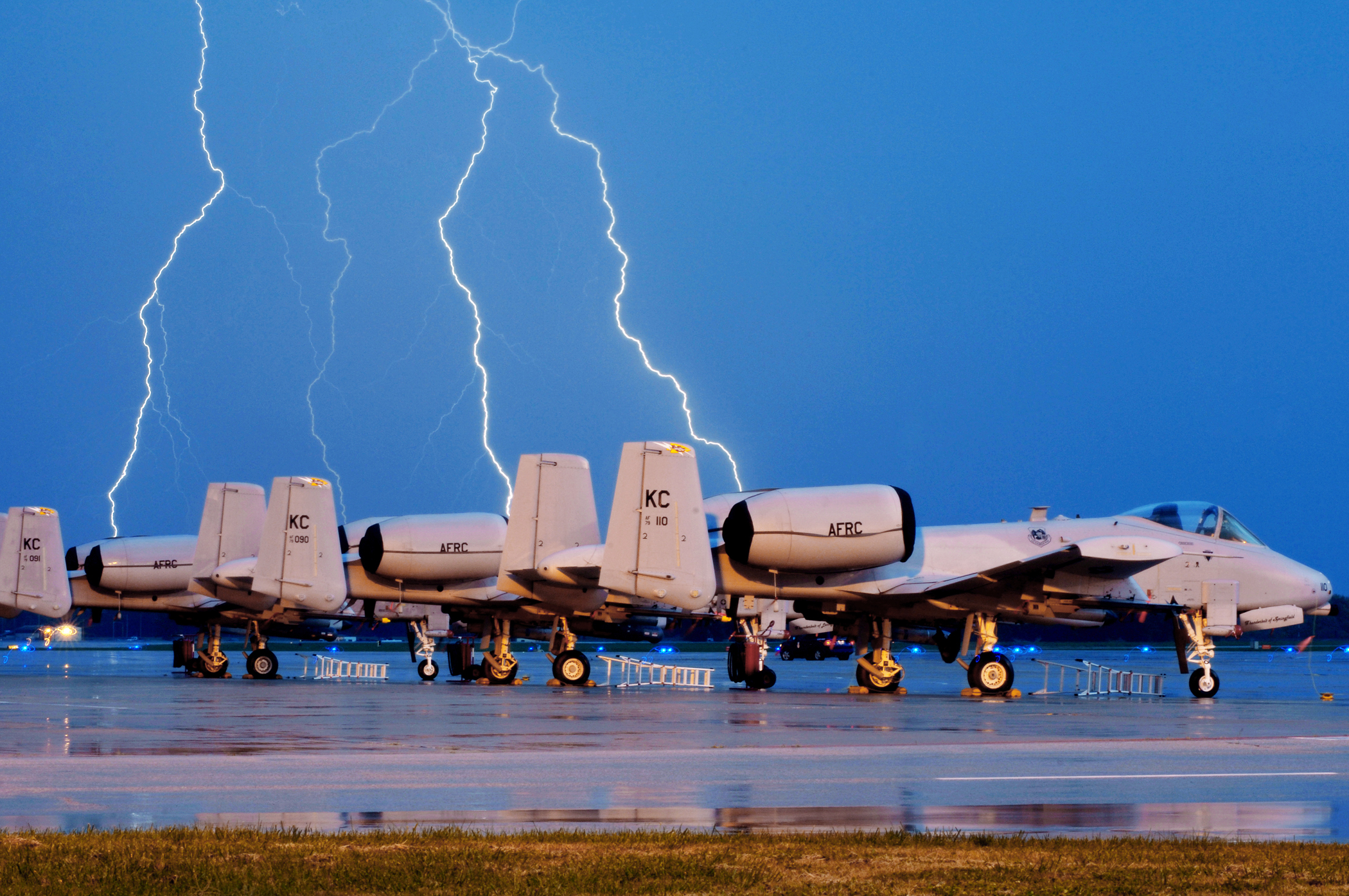 Lighting strikes behind A-10 Thunderbolt IIs on the Whiteman Air Force Base, Mo., flightline during an early morning thunderstorm Oct. 20, 2009. The 442nd Fighter Wing maintains a fleet of 27 A-10s. (U.S. Air Force photo/Senior Airman Kenny Holston)